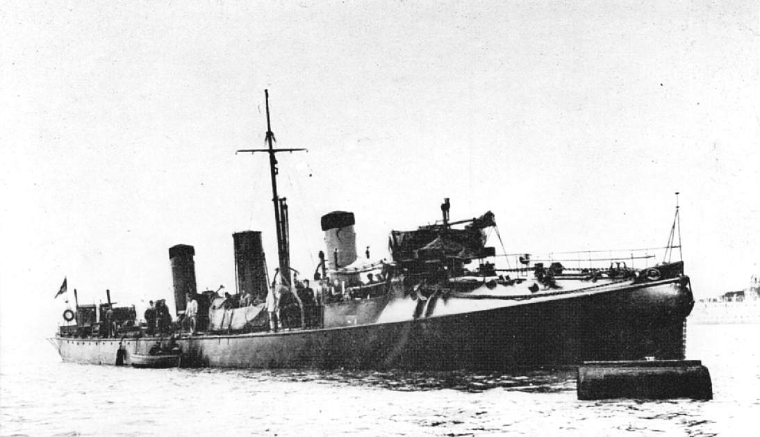 HMS Havock Downloaded from [1] The HMS Havock was broken up in 1912, so this image is surely in the public domain.